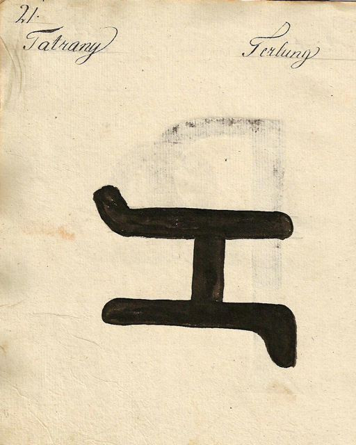 Cattle brand of Tatrang/Tărlungeni/Tatrang